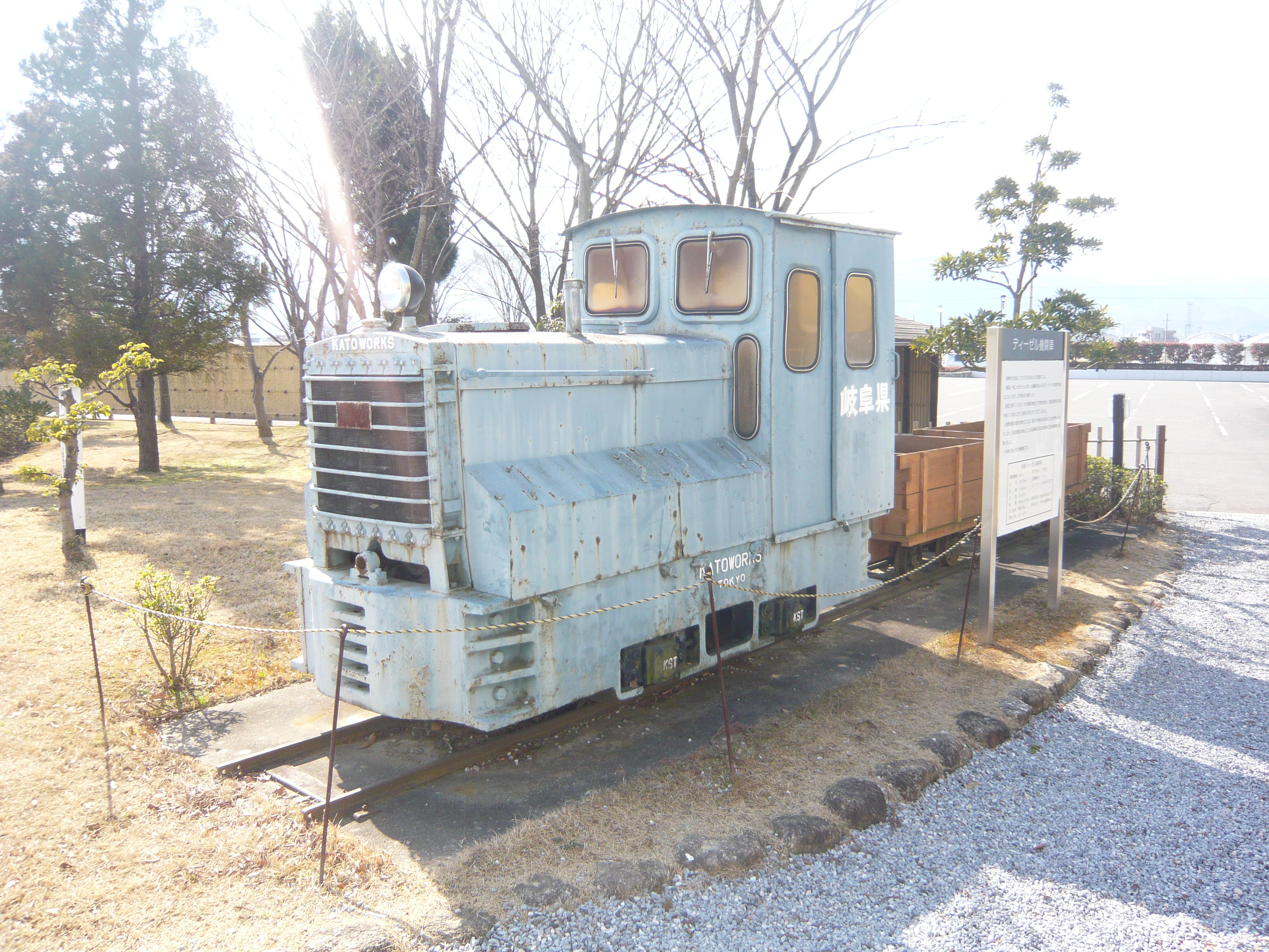 Diesel locomotive manufactured by Kato Works. Photographed in Kaizu, Gifu, Japan.